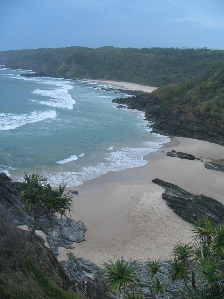 Broken Head